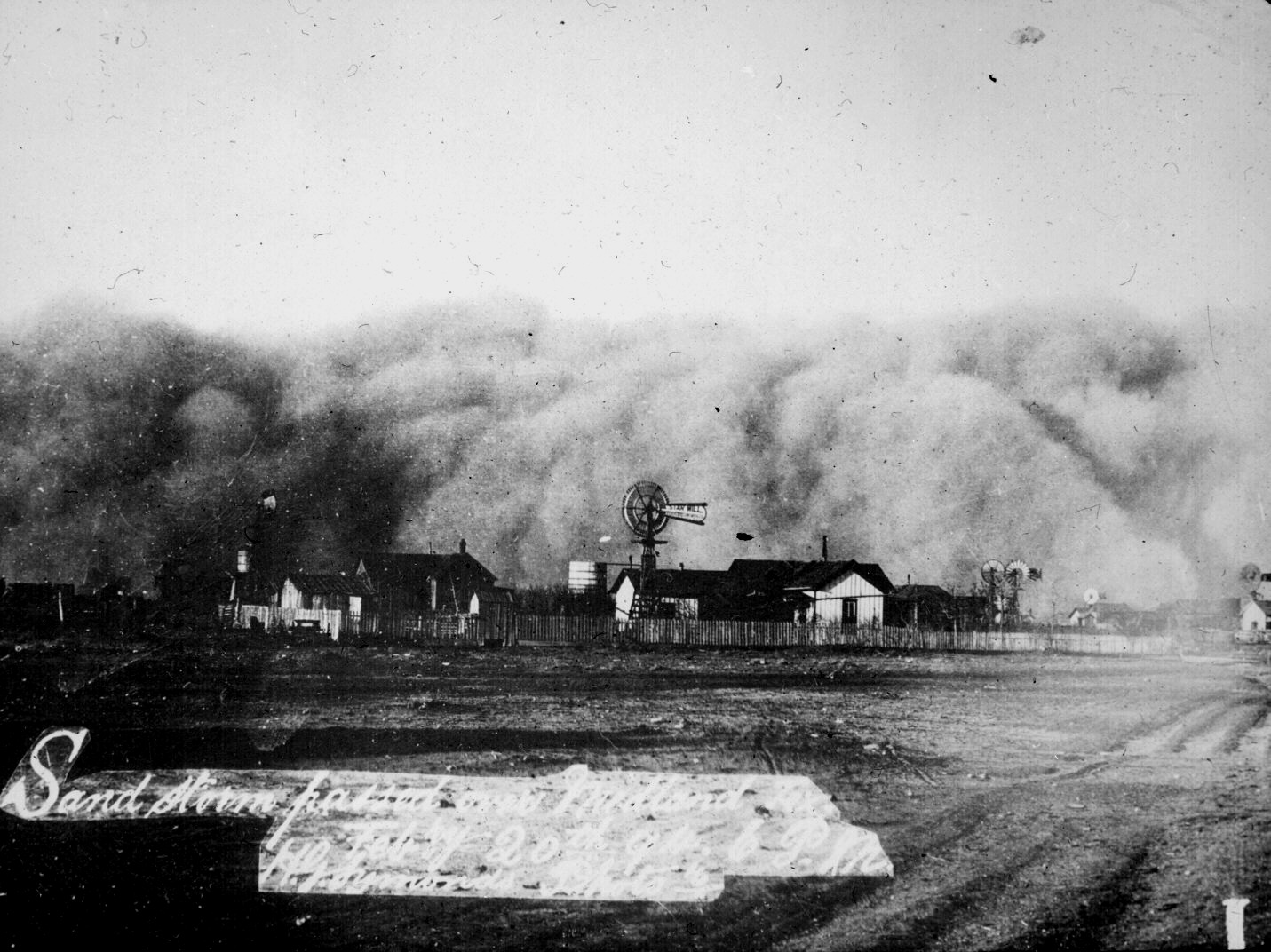 Sand storm that passed over Midland, Texas, February 20, 1894 at 6:00 p.m. Windmills and houses visible just below the whirling sand.